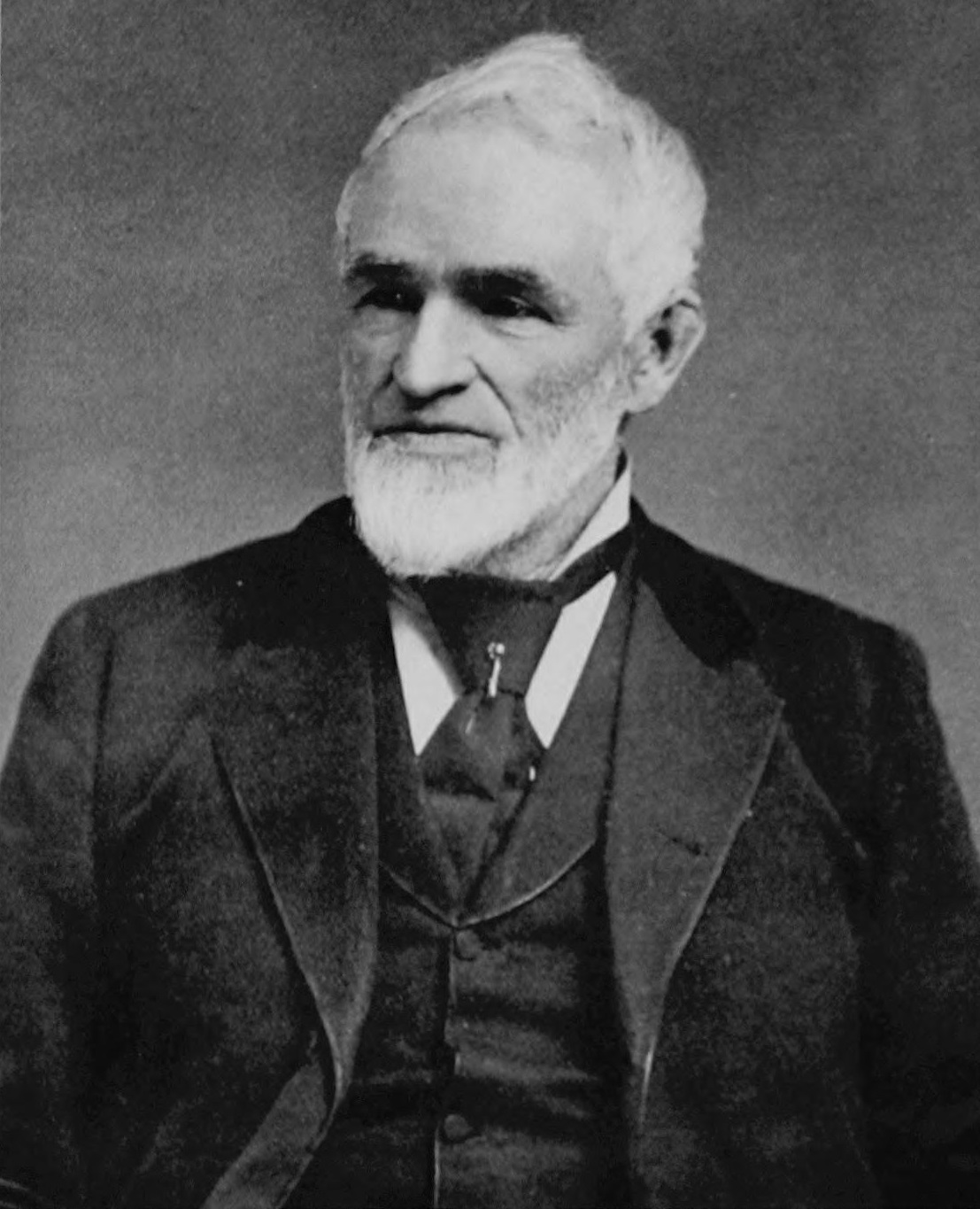 Henry Sherwood (Pennsylvania Congressman)